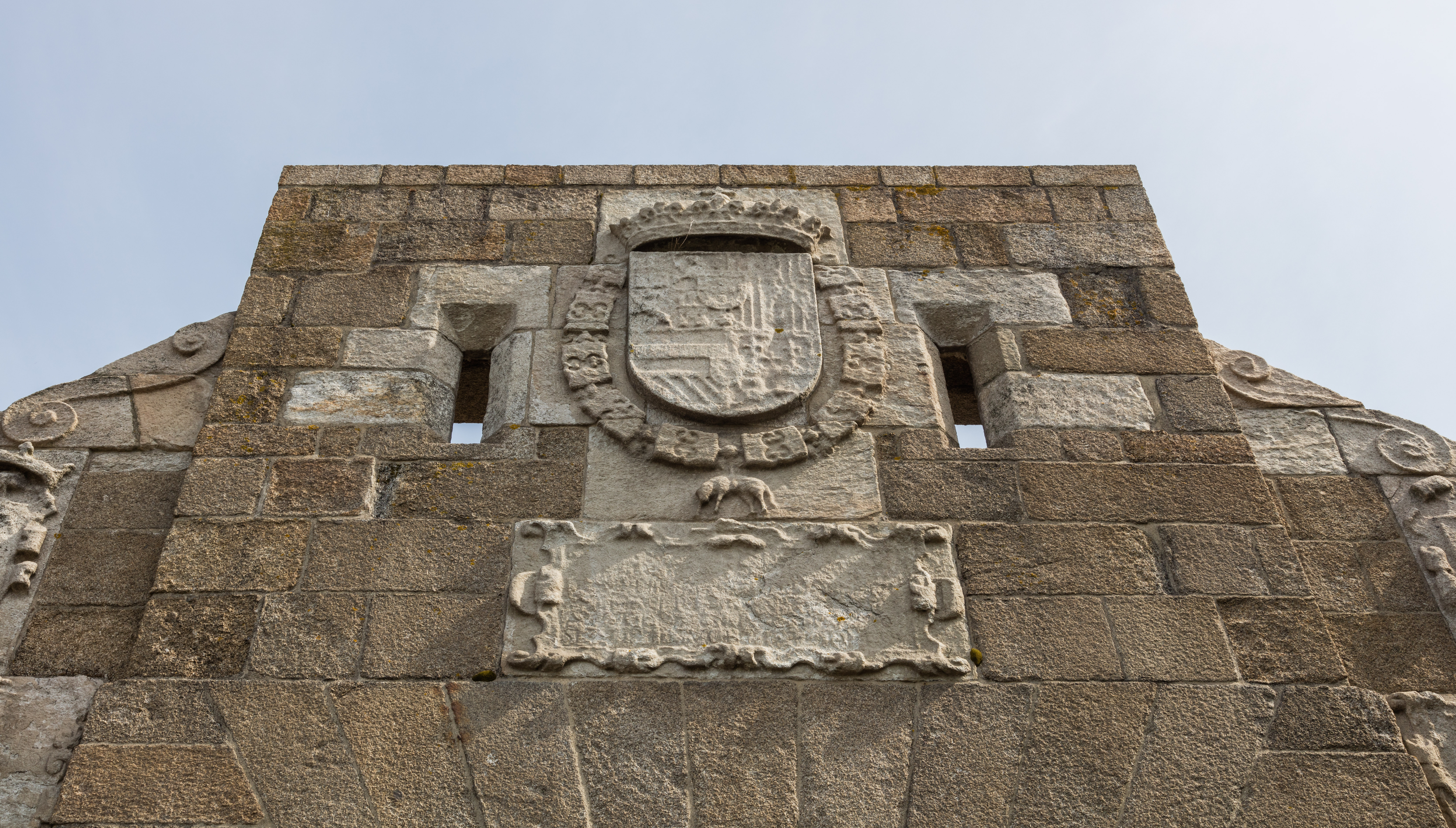 San Antón Castle, La Coruña, Spain